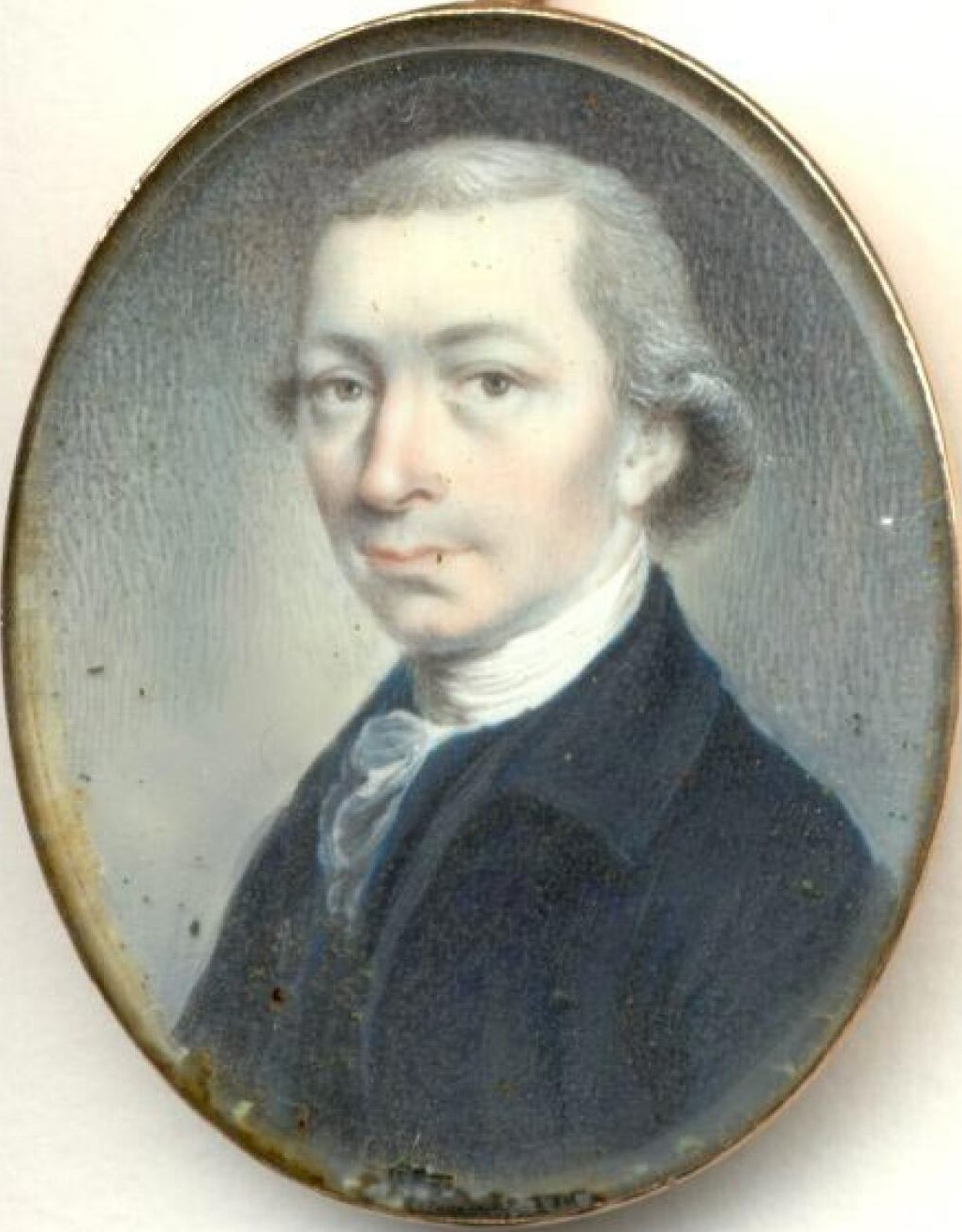 Jonathan Odell, New Brunswick Museum, Saint John, NB